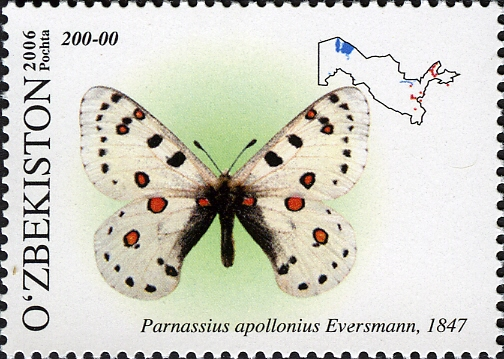 Stamps of Uzbekistan, 2006